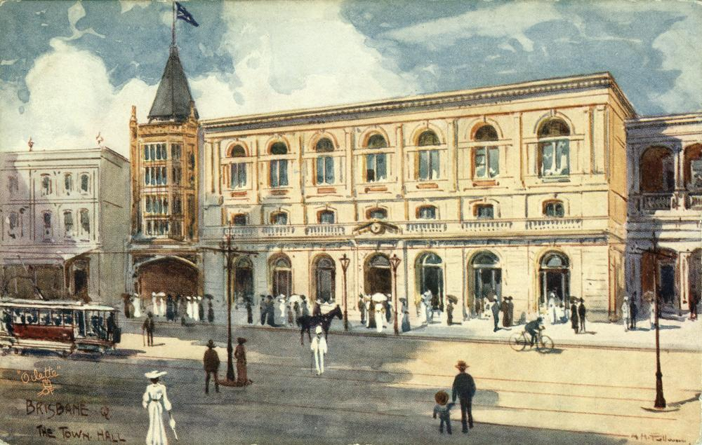 Early street scene featuring Town Hall, Brisbane, ca. 1895. Hand coloured postcard featuring a street scene in front of Brisbane Town Hall. A tram competes with pedestrians and horses in the street. Gaslights are spaced at intervals and a tower with a flag flying can be seen next to Town Hall.